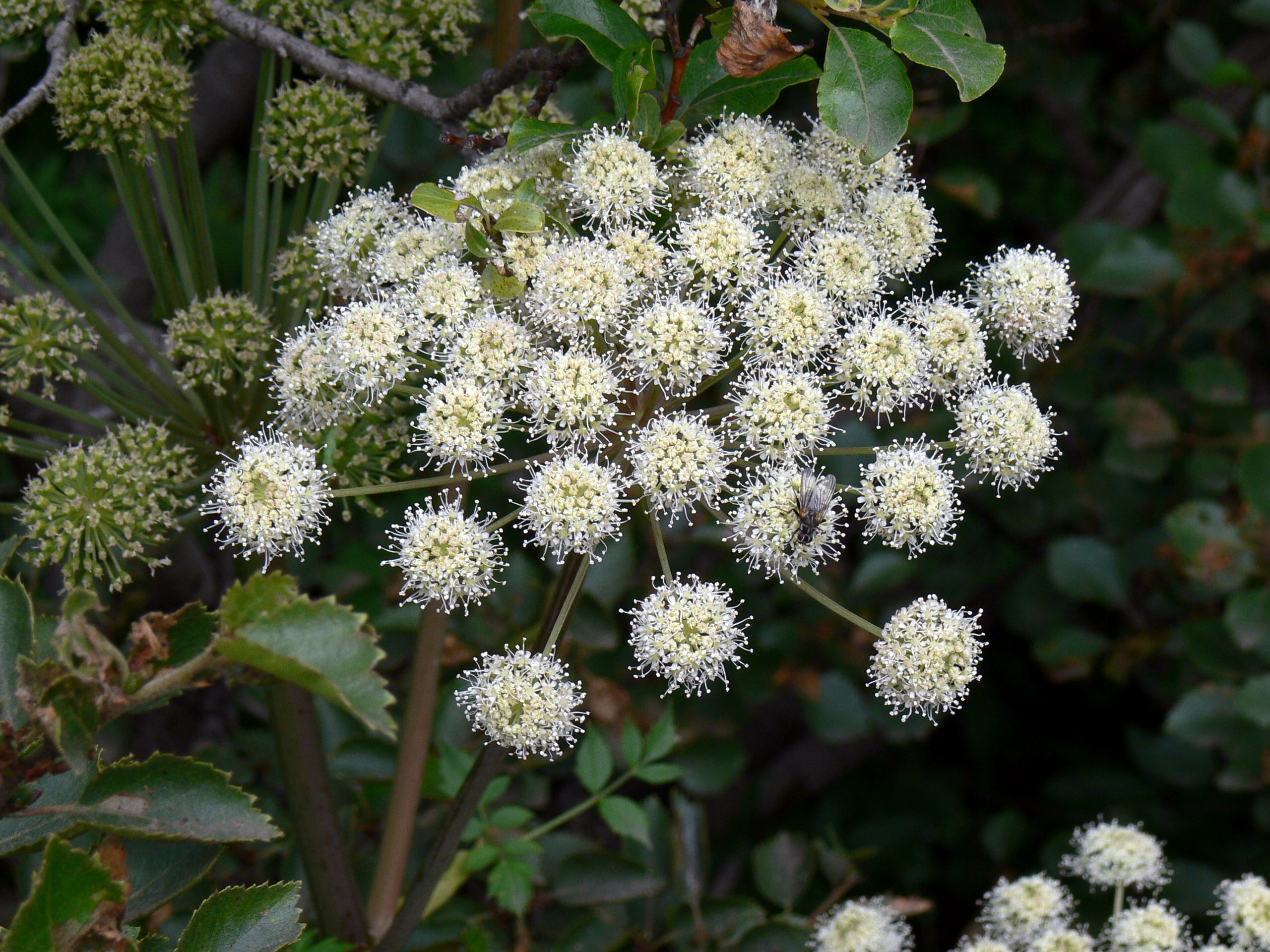 Skaftafell National Park ( Iceland ). Angelica archangelica.